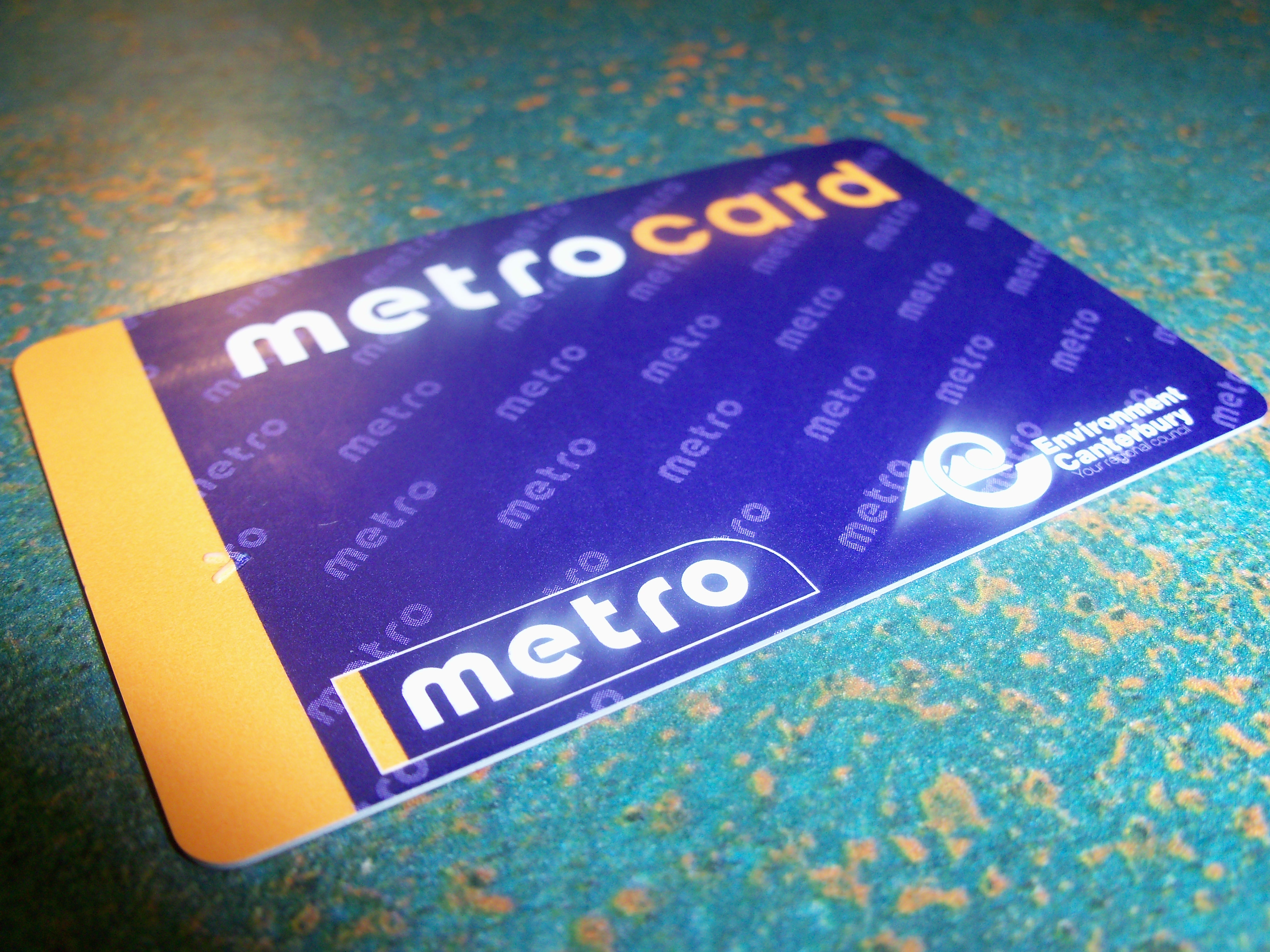 Metrocard (original version) issued by Environment Canterbury for use on Metro services in Christchurch